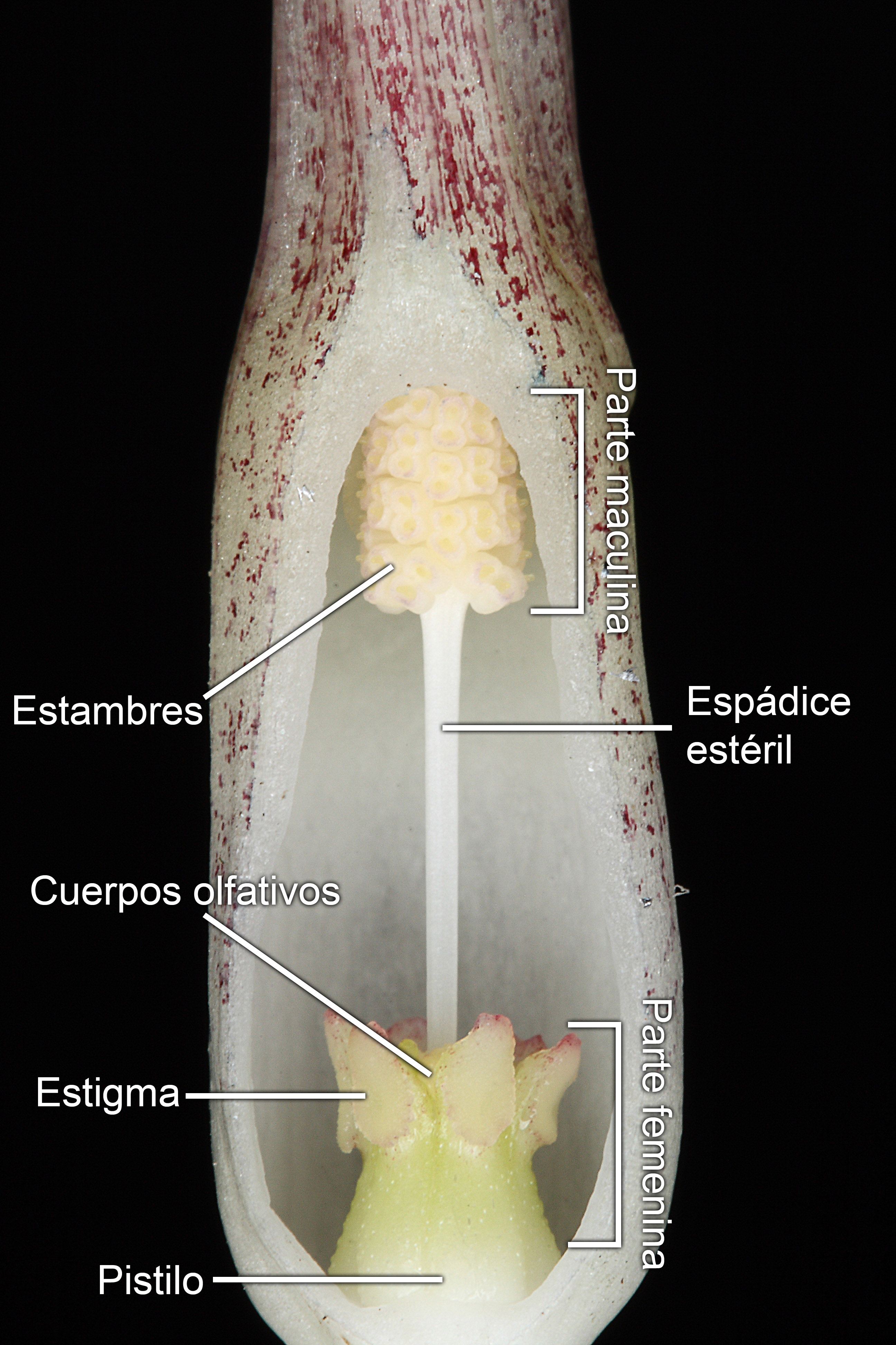 Parts of Cryptocoryne longicauda inflorescense